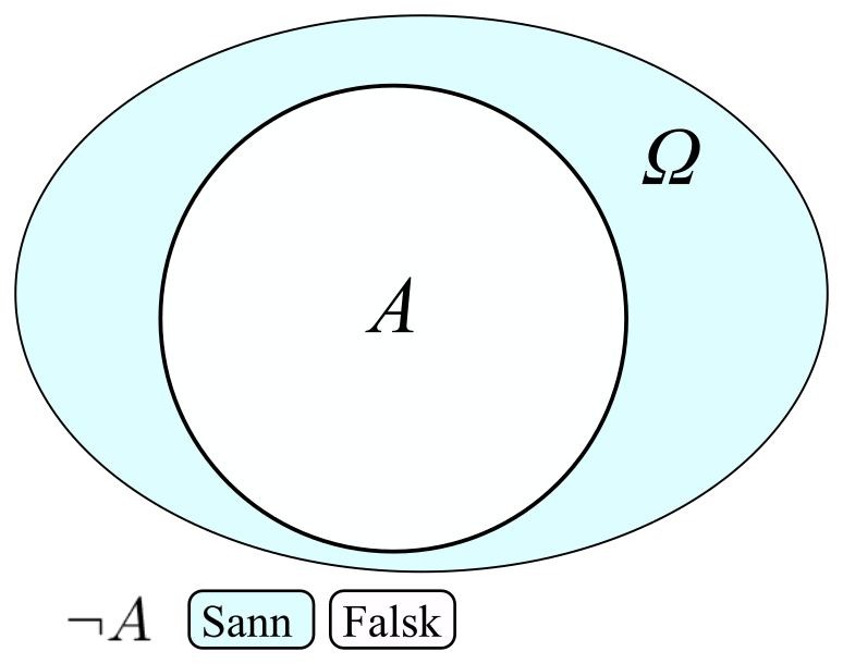 The logical NOT operator